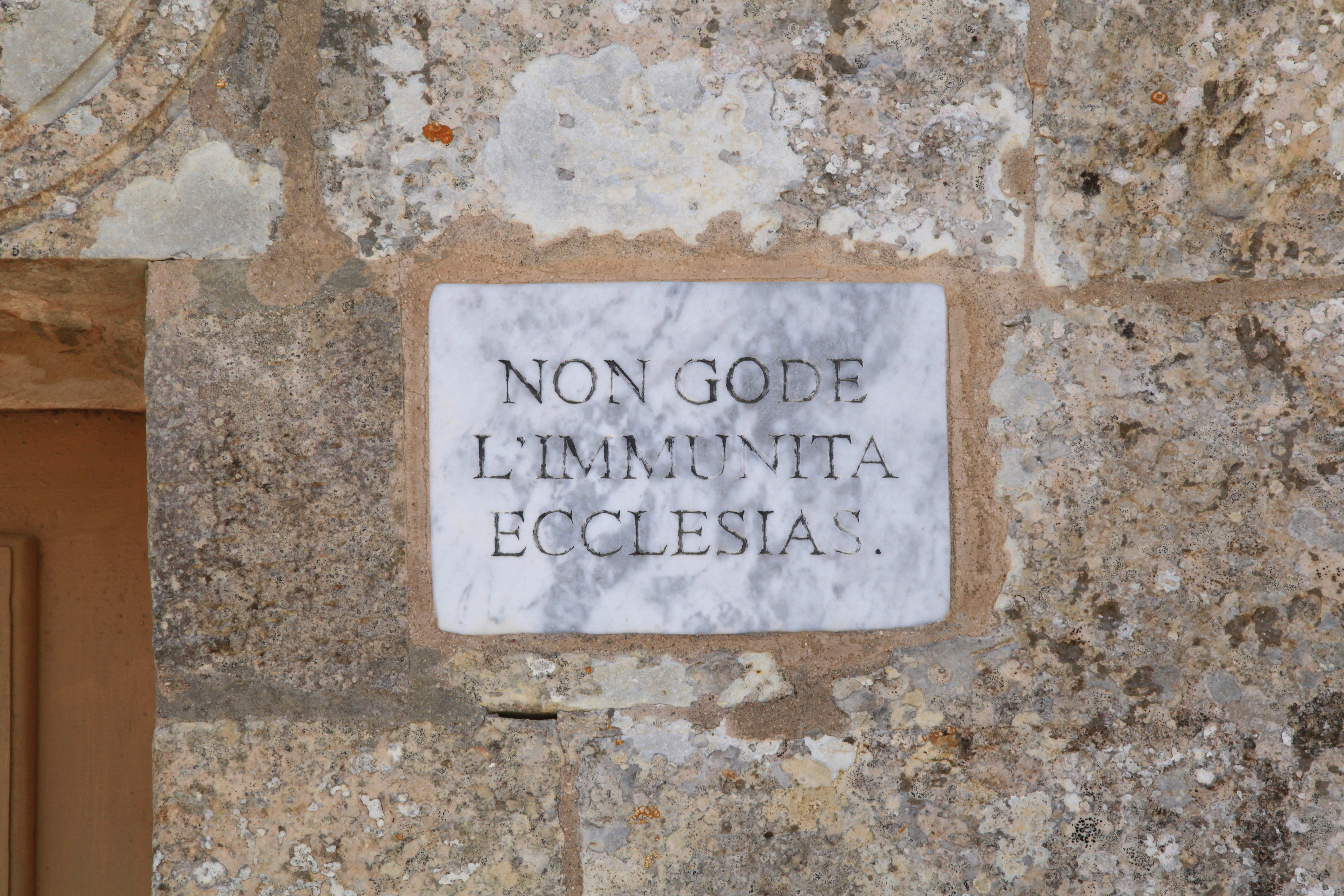 St. Mary Magdalene Chapel at Triq Panoramika in Dingli, Malta